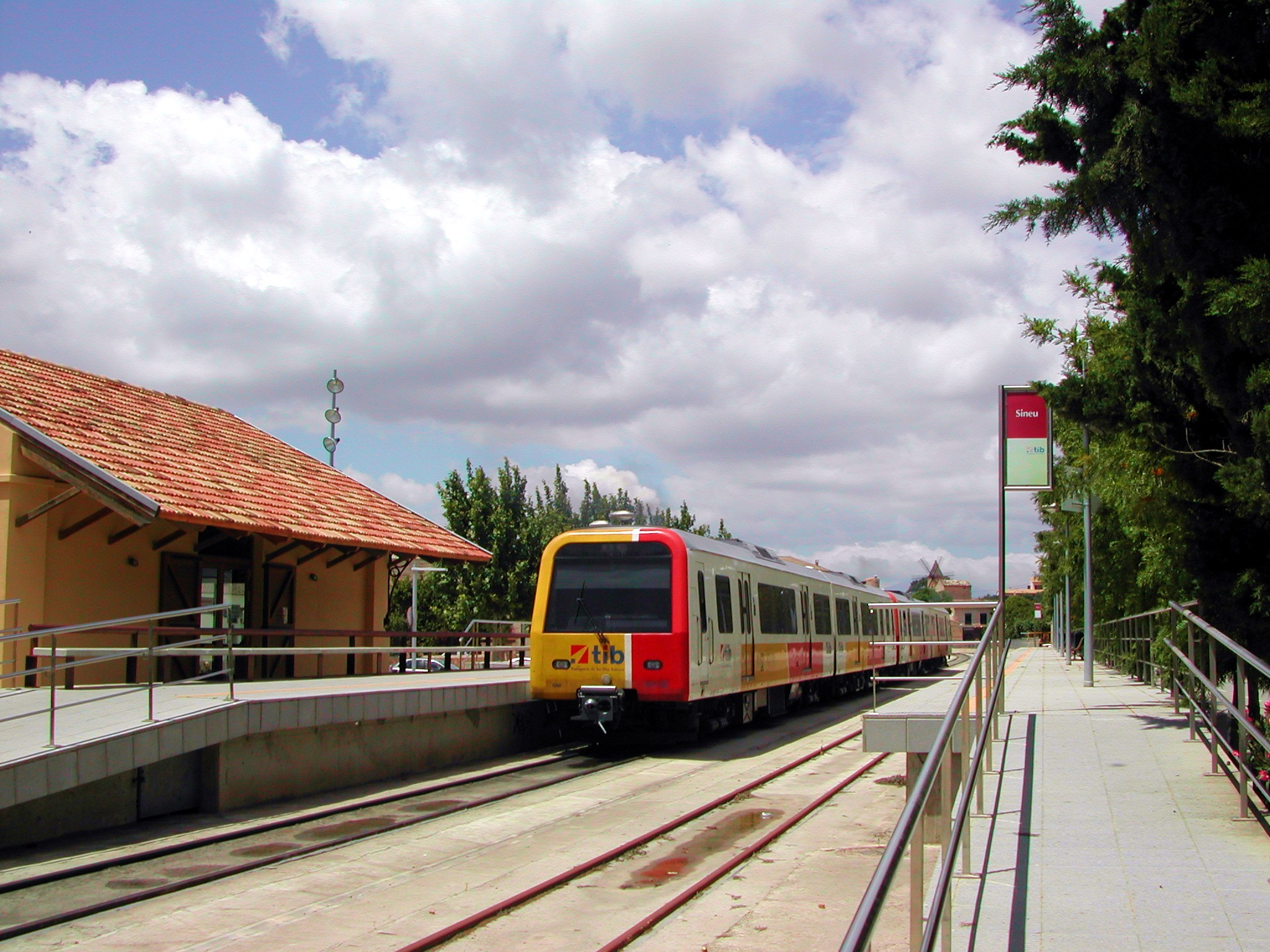 Sineu station with a covoy coming from Manacor.